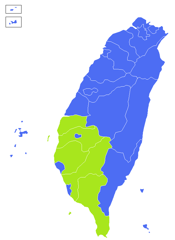 2008 Republic of China (Taiwan) Presidential Election Results Map, 2008年中華民國總統選舉得票分佈